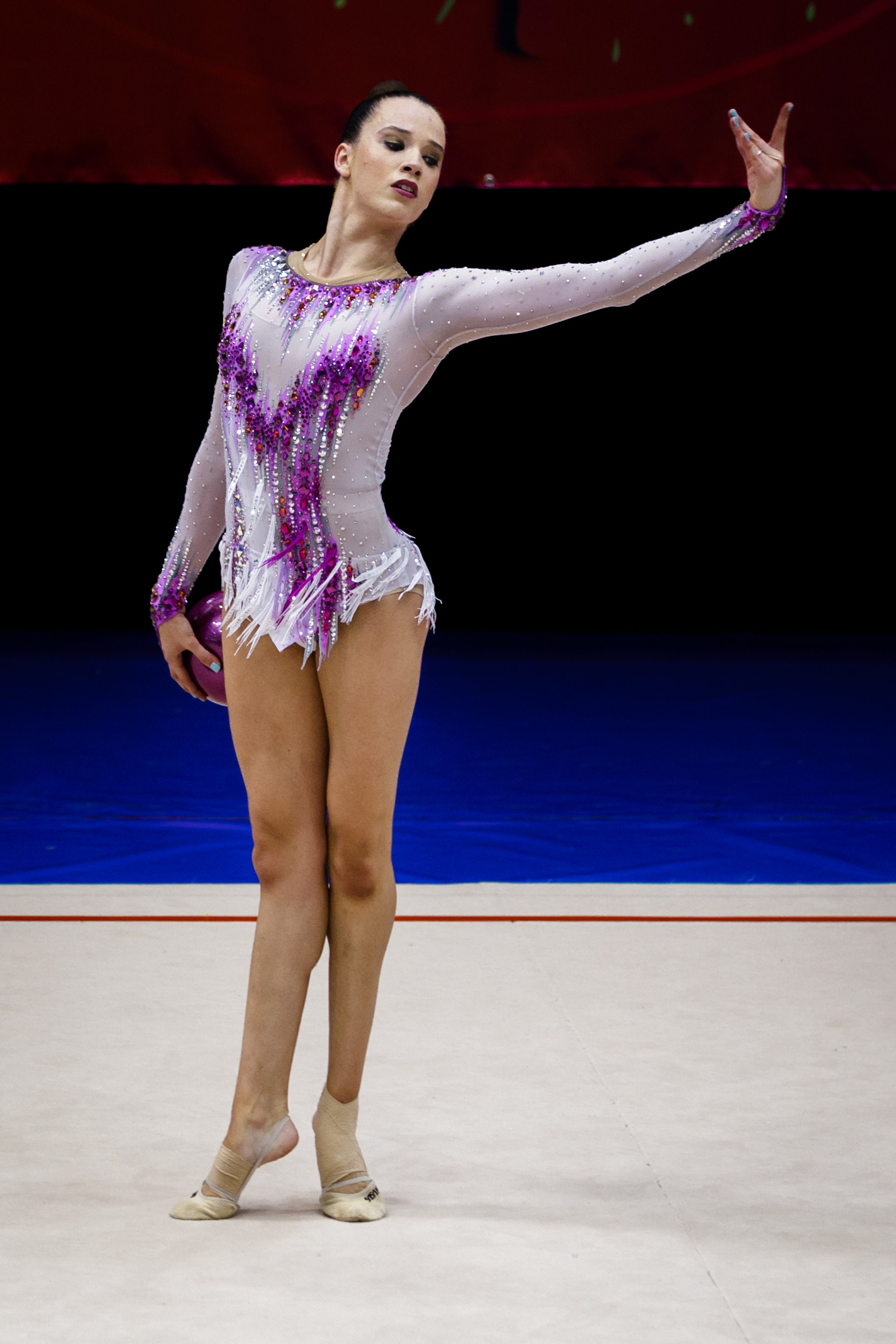 Nicol Zelikman during her ball routine at the Israel National Championships 2019.